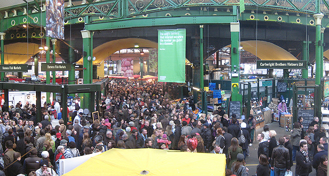 Borough Market on a busy Saturday. Compare 1027806 - what a contrast! This Valentine's Saturday lunchtime saw the place seething with crowds of punters, not just looking but eating, drinking and buying provisions. A range of foreign tongues could be heard, both from Europe and further afield. Everyone appeared to be having a good time and the place was doing a roaring trade.